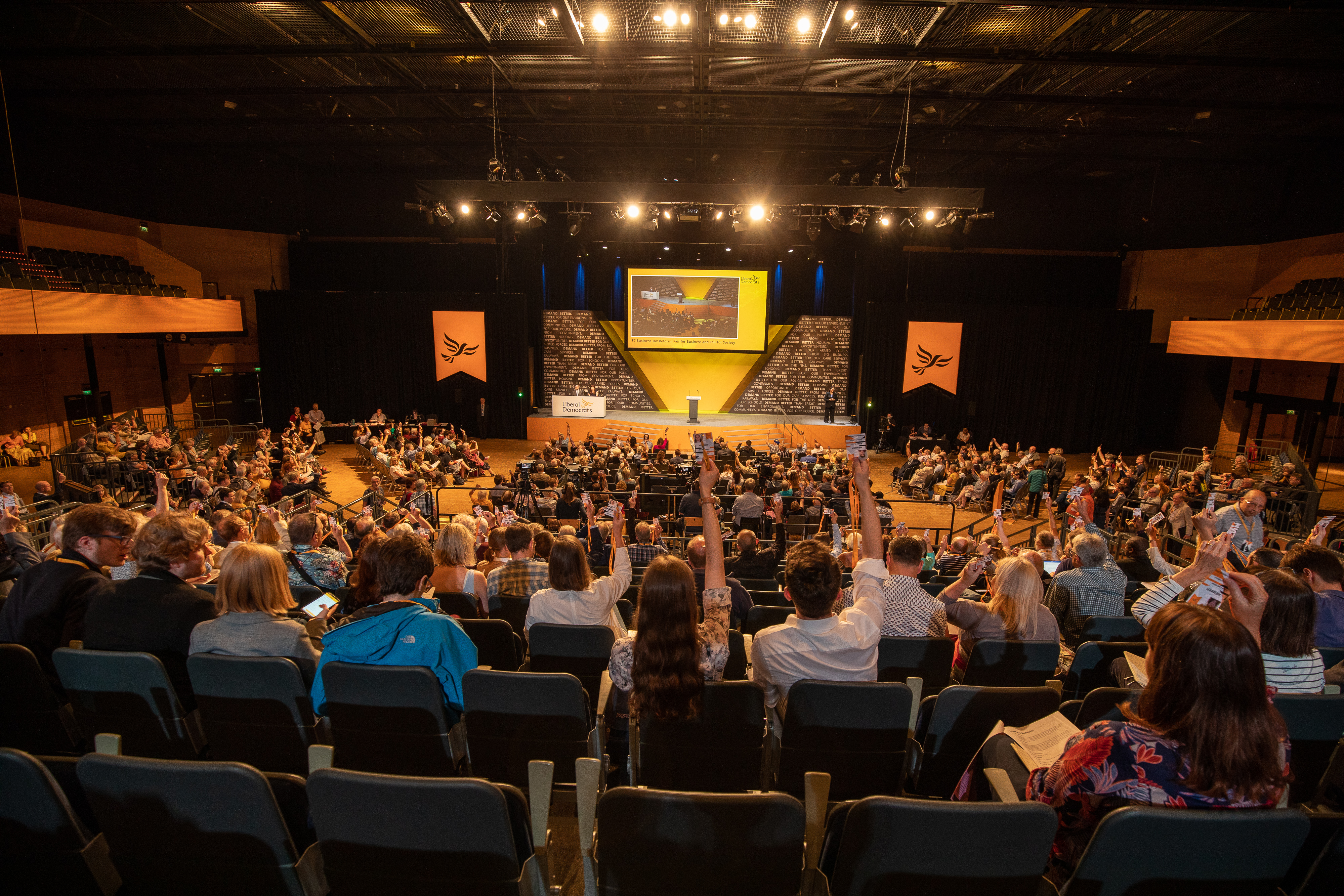 Main auditorium at the Lib Dem party autumn conference 2019.